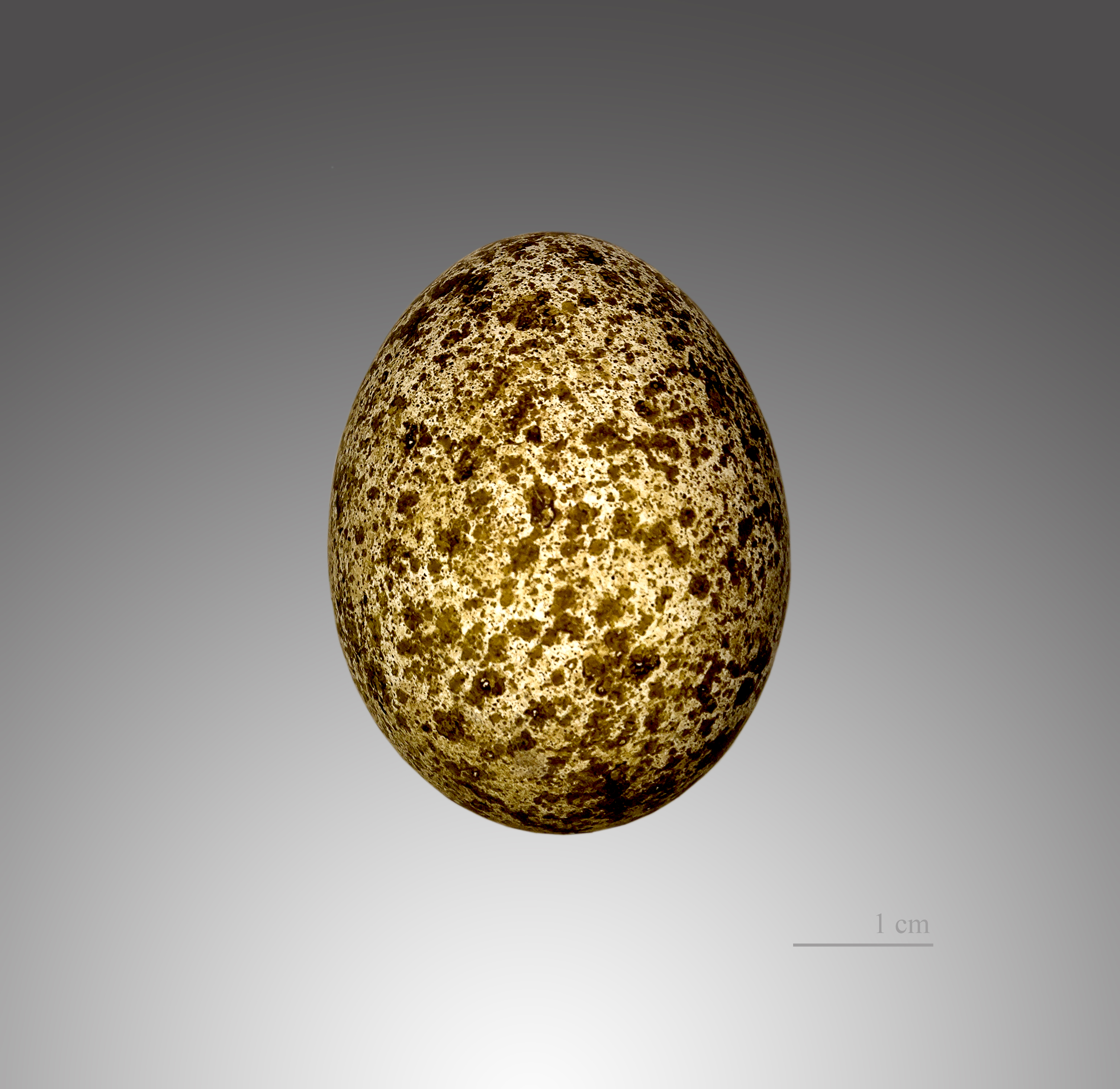 Egg of Merlin. Collection of Henri Heim de Balsac/Jacques Perrin de Brichambaut. Locality: Peltowiou, Enontekiö, Finland.